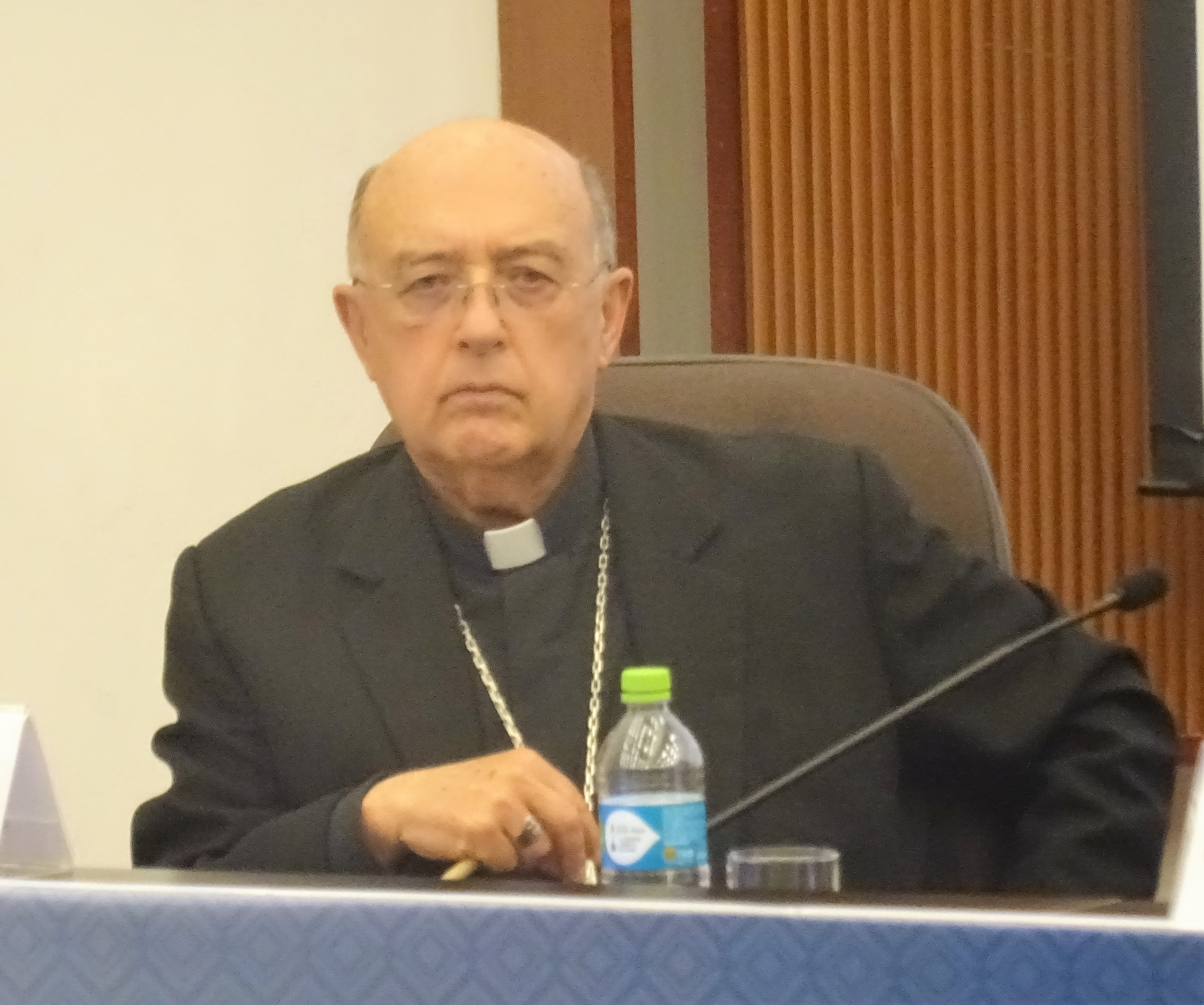 Mons. Pedro Barreto Jimeno, S.J., in Aula Magna PUCP Following to Francisco, 2018.